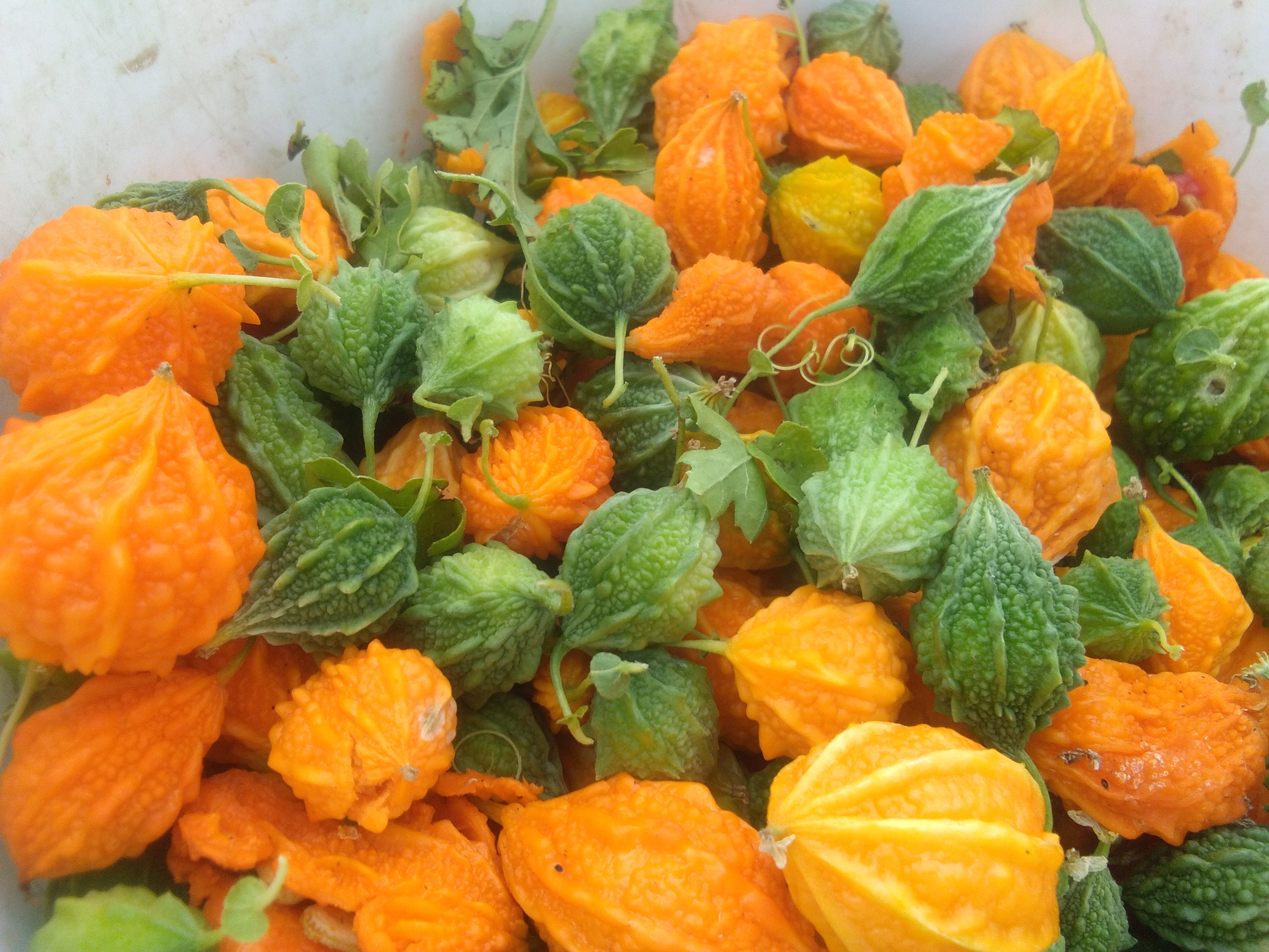 This is the bittergourd variety. Momordica charantia var muricata.